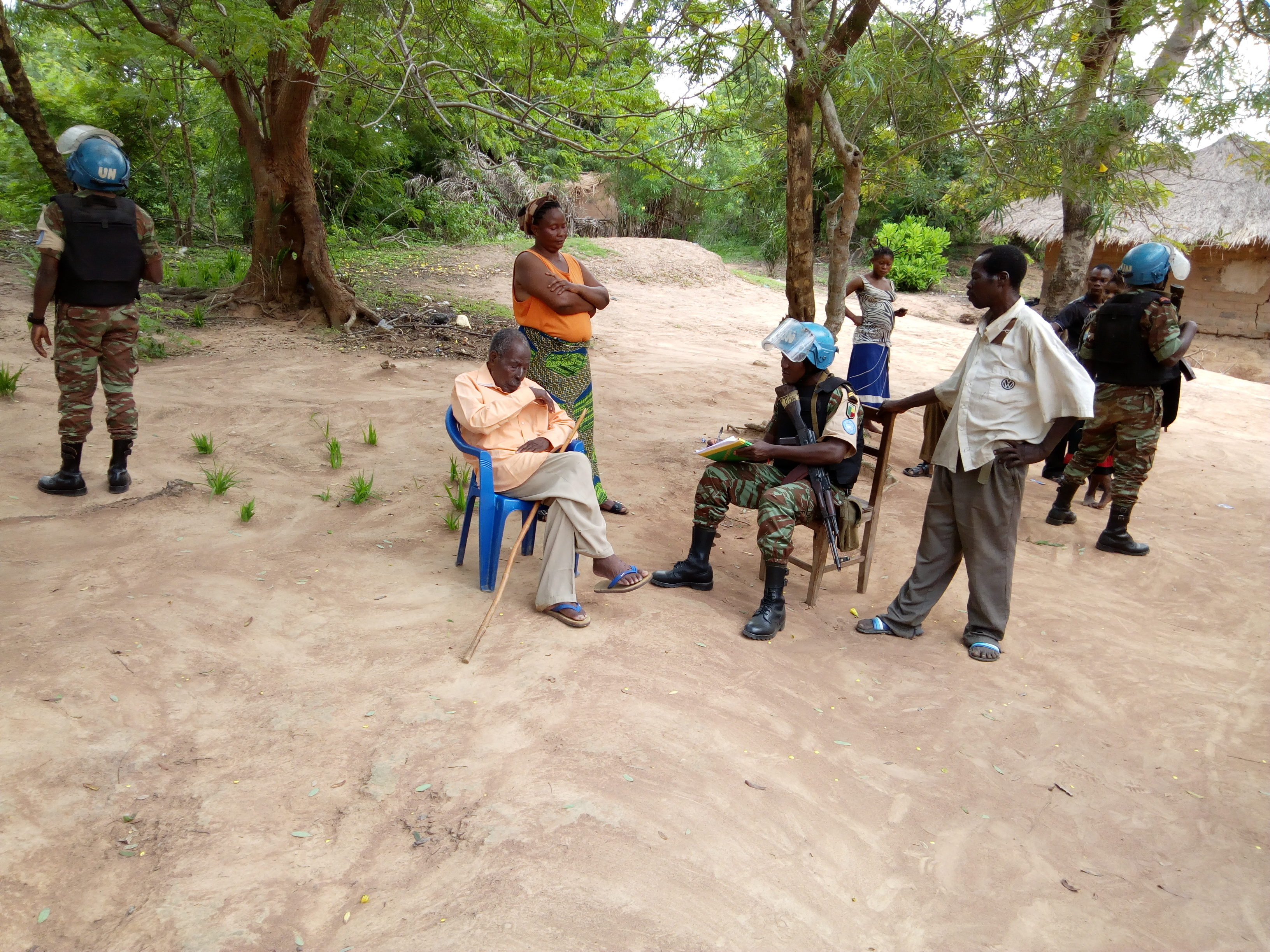 Kongolo Territory, Tanganyika Province, DR Congo: In the framework of the protection of civilians, Peacekeepers of the Beninois contingent of the MONUSCO interact with the population. Here in the locality of Keba, a meeting takes place with the customary chief of Yambula during a patrol last October 19. Photo MONUSCO /Force